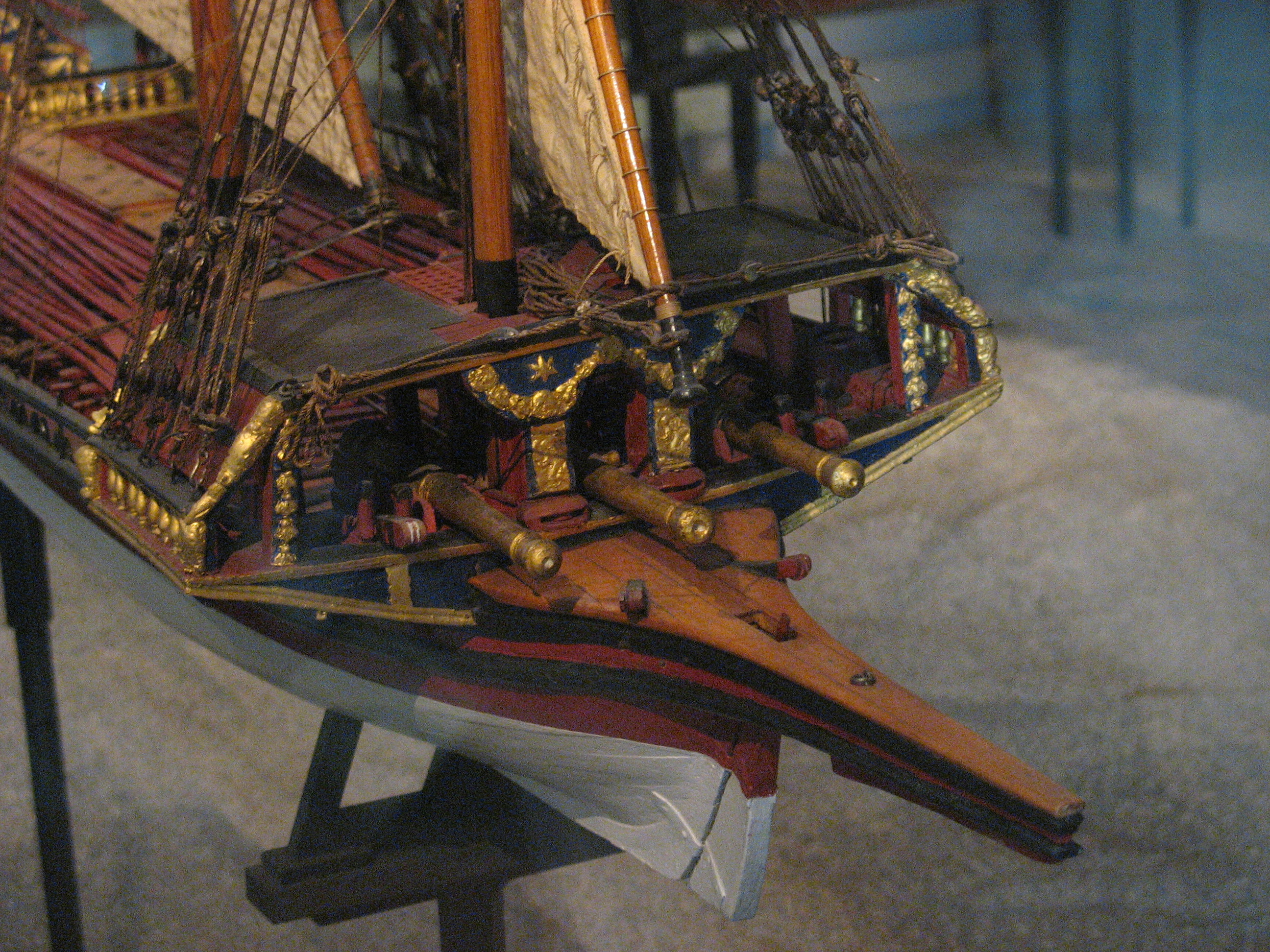 Contemporary model a Swedish galley of 1715 at the Maritime Museum in Stockholm. Scale 1:36.